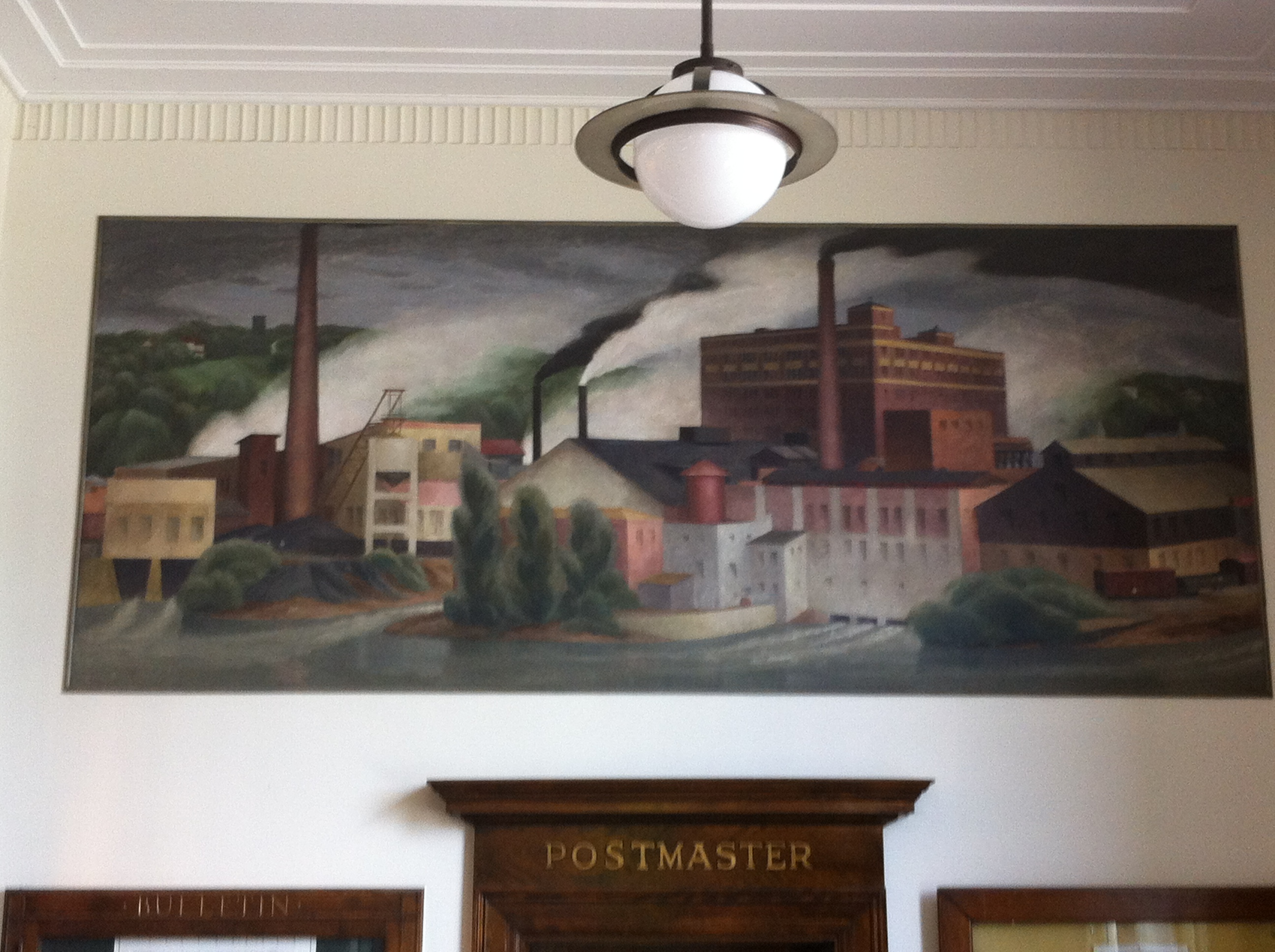 WPA mural in the Marsilles, Il US Post Office